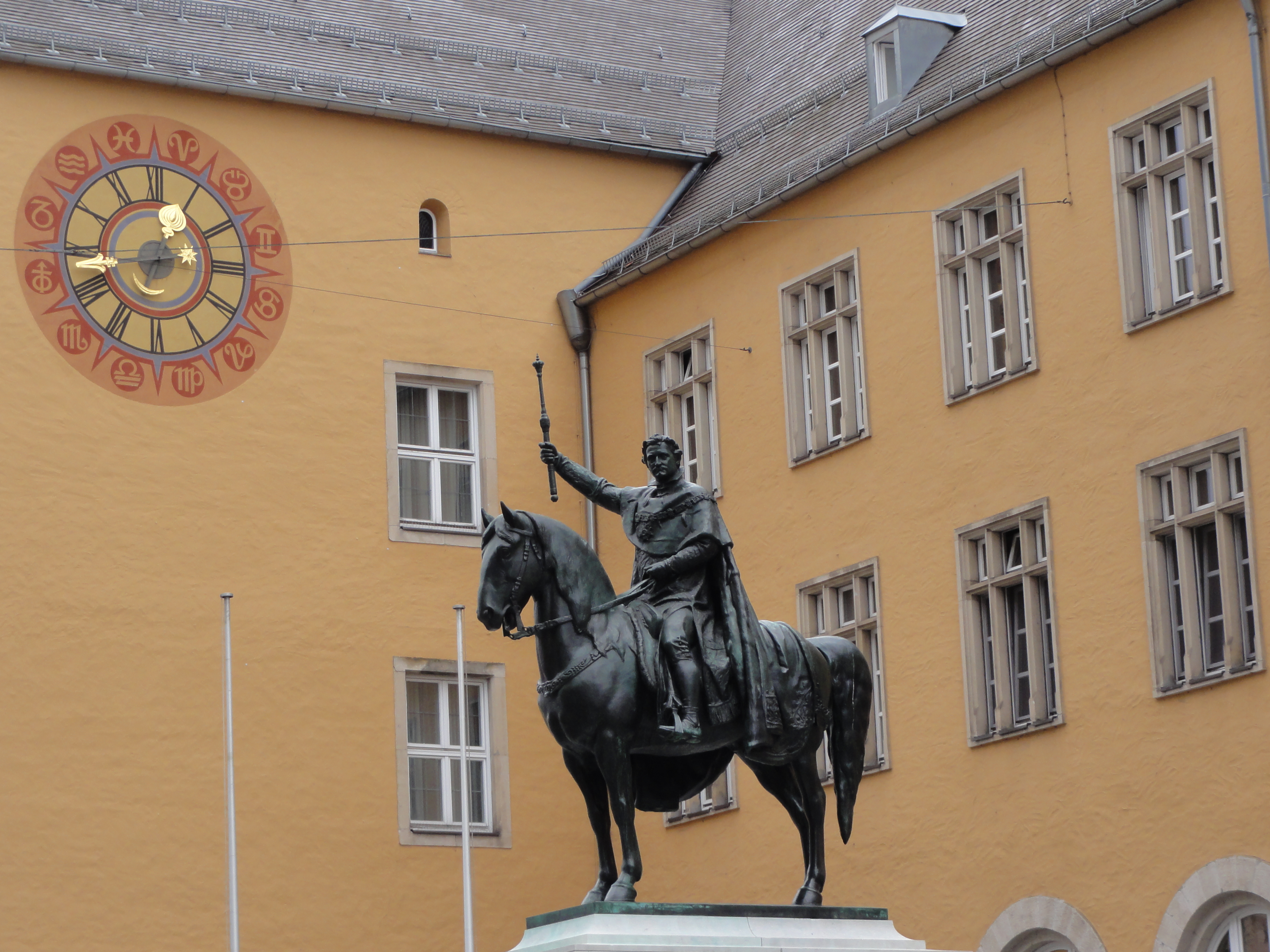 Ludwig I of Bavaria, Regensburg, next to the Regensburg Cathedral (2012)